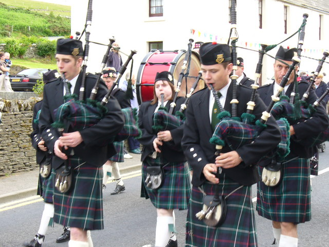 Pipe Band at Finstown Gala Behind the band is the stone Pomona Inn which takes its name from the classical name for Mainland, Orkney. Old red sandstone dyke is evident behind the band as is the grassy hillside rising to the south of the village's main street. The band is leading floats and fancy dress procession of the Finstown Gala.